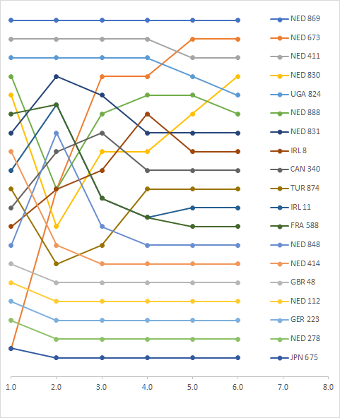 12' Dinghy positions during the 2018 Vintage Yachting Games